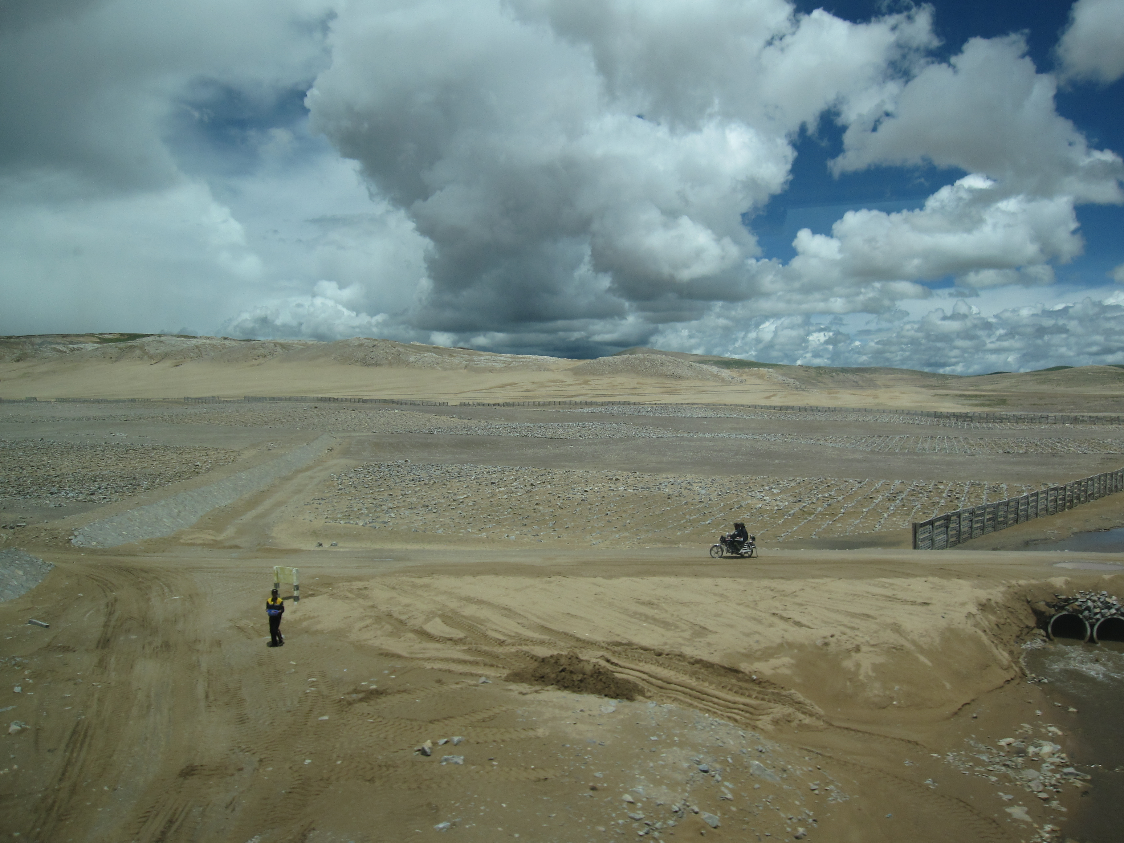 Shortly after departing from Cuo Na Hu railway station we encountered these sandy, desert like conditions with those interesting rock patterns we saw so aften along the tracks. According to our Beijing guide, Da Li, these are handmade structures used to trap sand during storms - part of the Chinese strategy to fight desertification. Deserts now cover 18 percent of China. Of those, 78 percent are natural, while 22 percent were created by humans. Since 1978, Chinese forestry engineers have been supervising the planting of the Great Green Wall. Some 4,500 kilometres in length, the tree barrier is intended, when completed in several decades, to prevent desertification by protecting the fragile land from wind. Another project of equally immense proportions is the South-to-North Water Transfer. It aims to redirect to the north, by the year 2050 via a network of canals, about 50 billion cubic metres of water per year from the rivers of southern and central China. The project will obliterate heritage sites and engulf villages and towns.